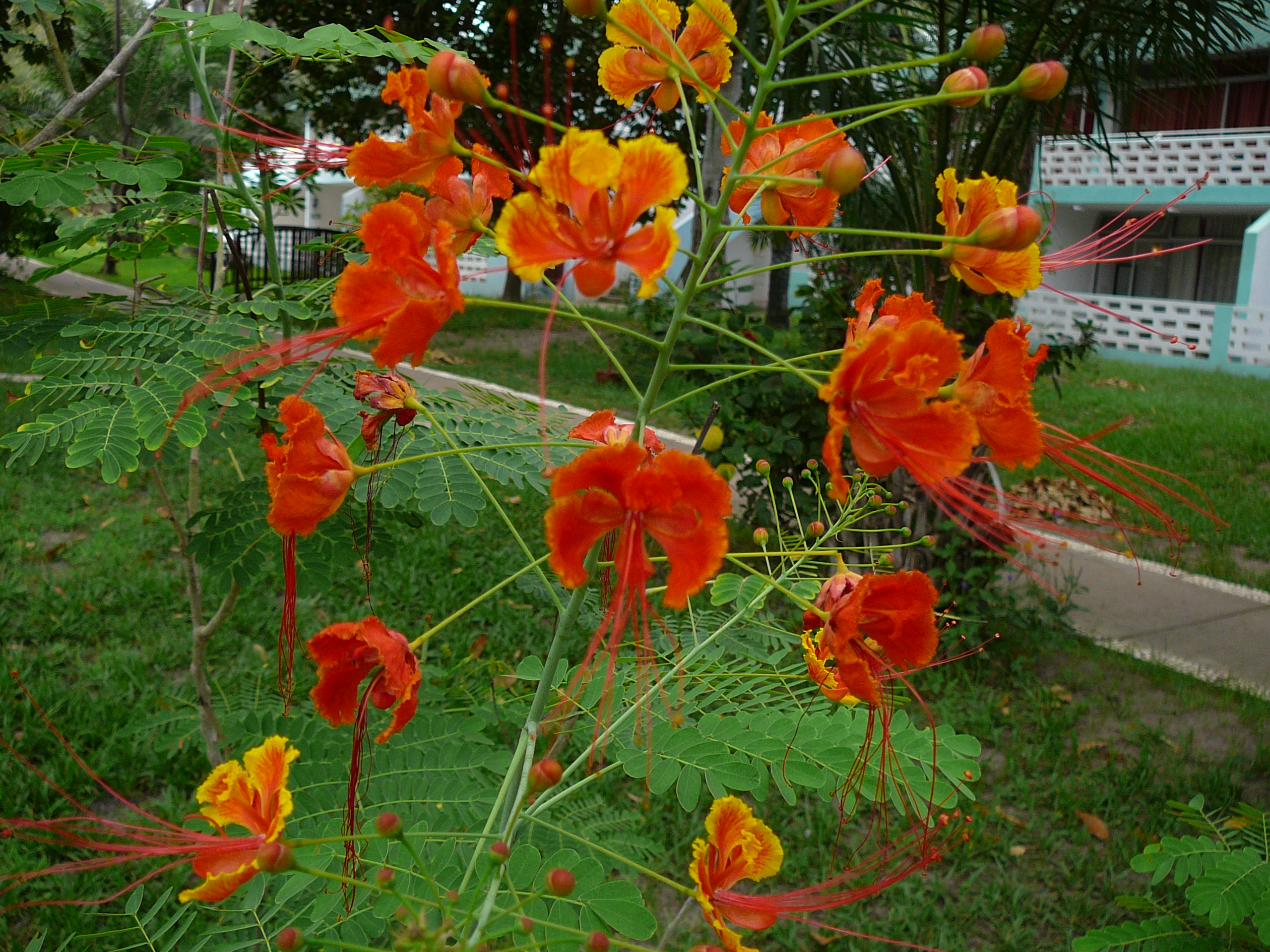 Pride of Barbados